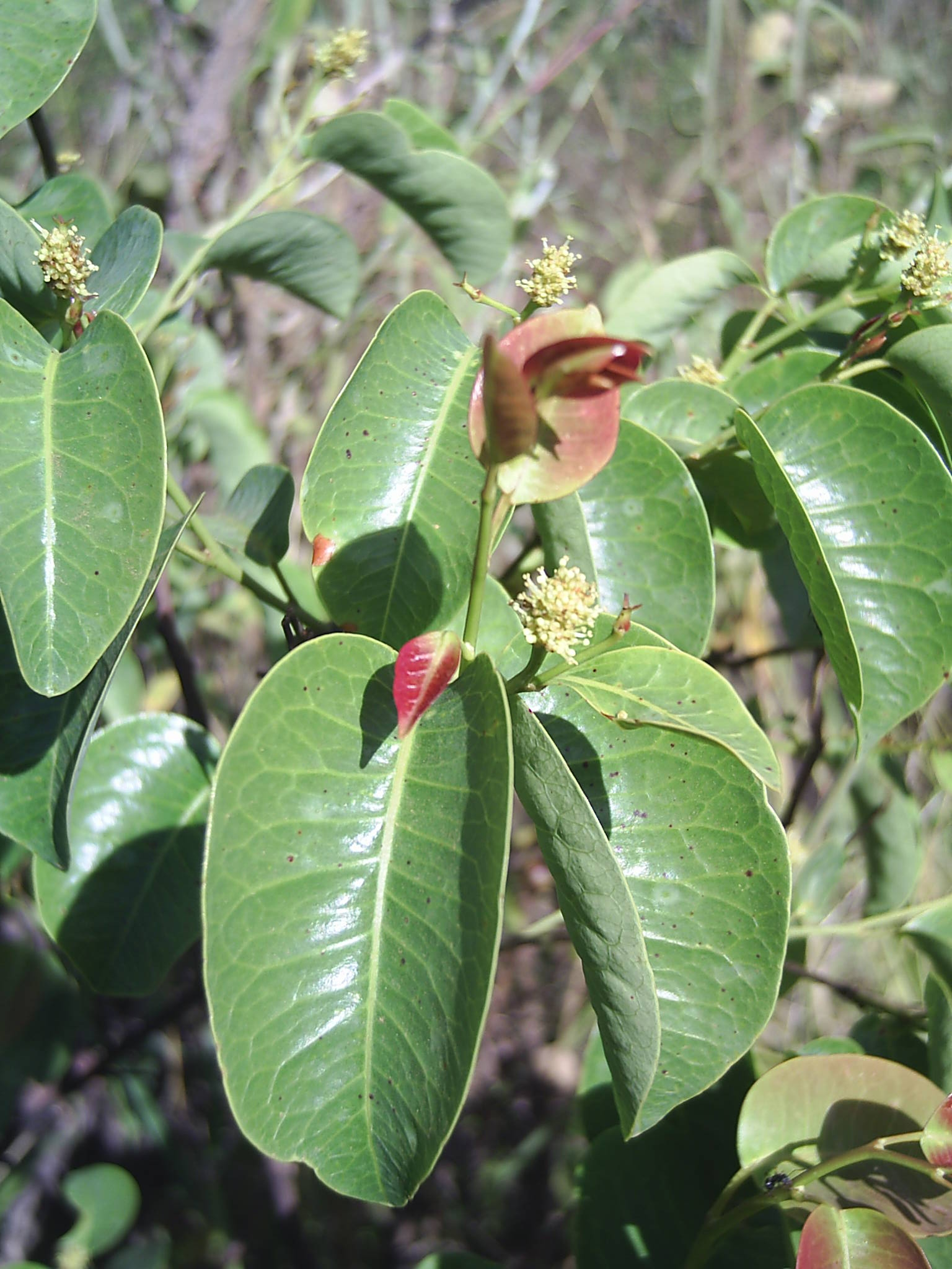 Maprounea guianensis at Fazenda Água Limpa/University of Brasília-UnB, Brasília-DF, Brazil